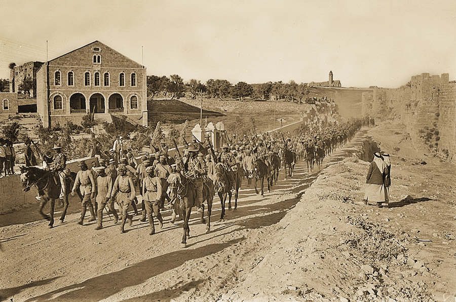 image processing of German prisoners in Jerusalem 1917-1918